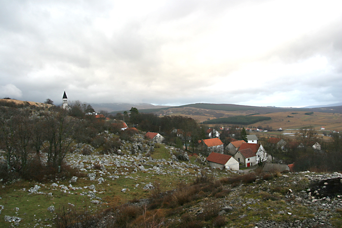 Gradina Vidoši